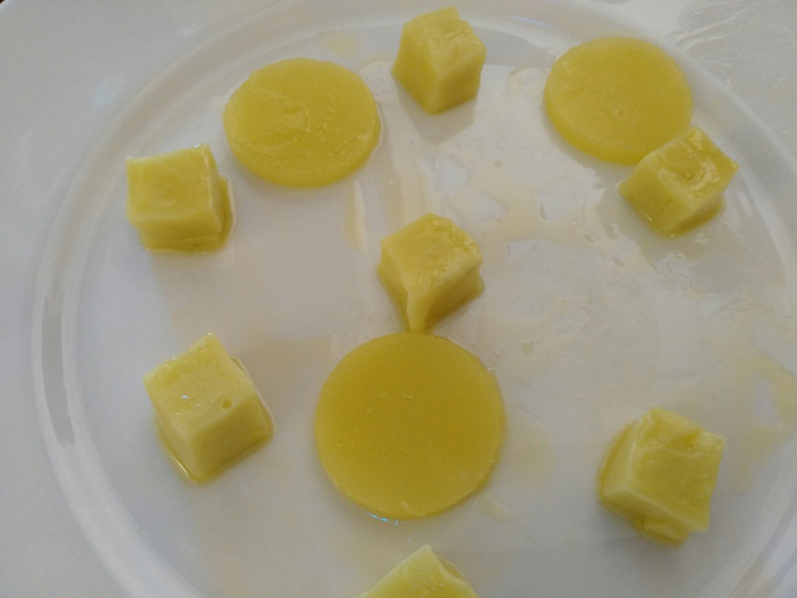 Gelatina d'oli